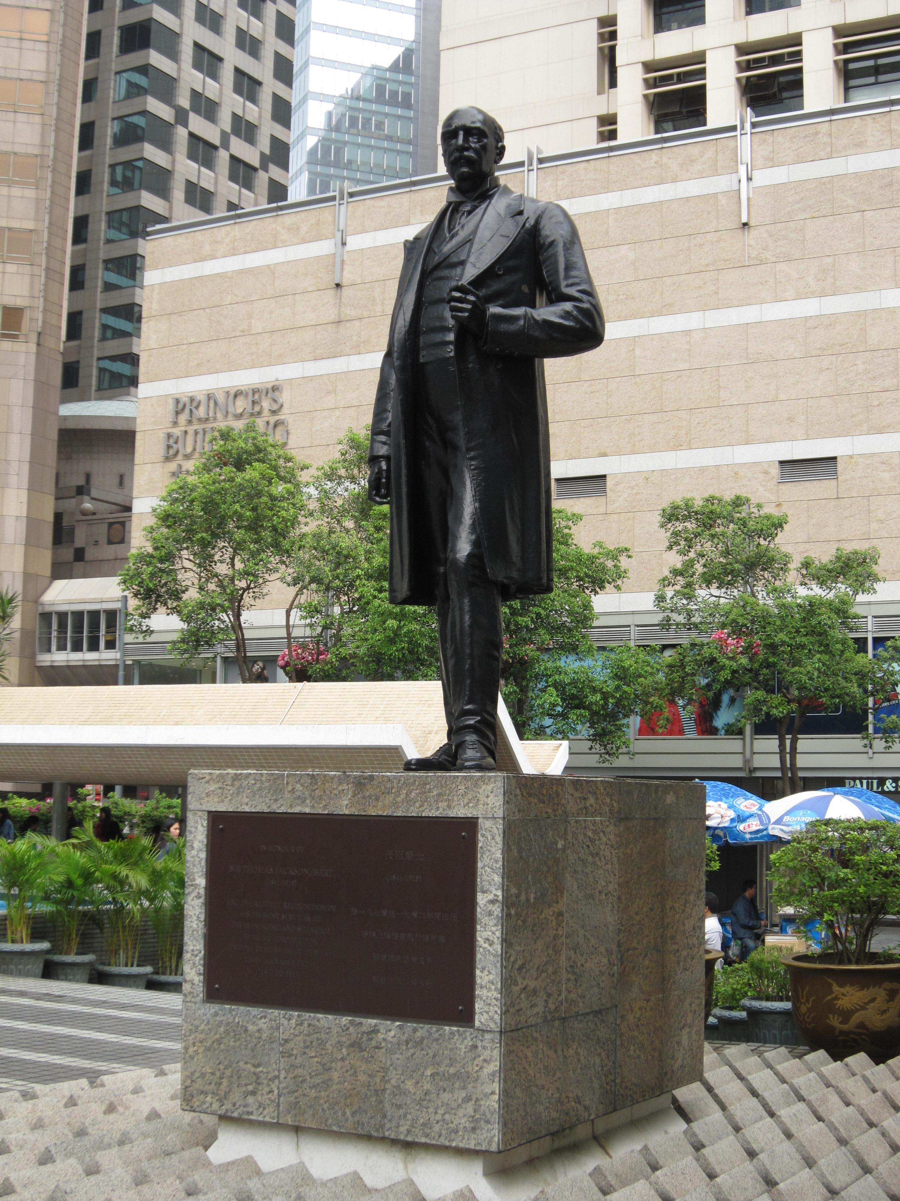 Status of Sir Thomas Jackson in Statue Square